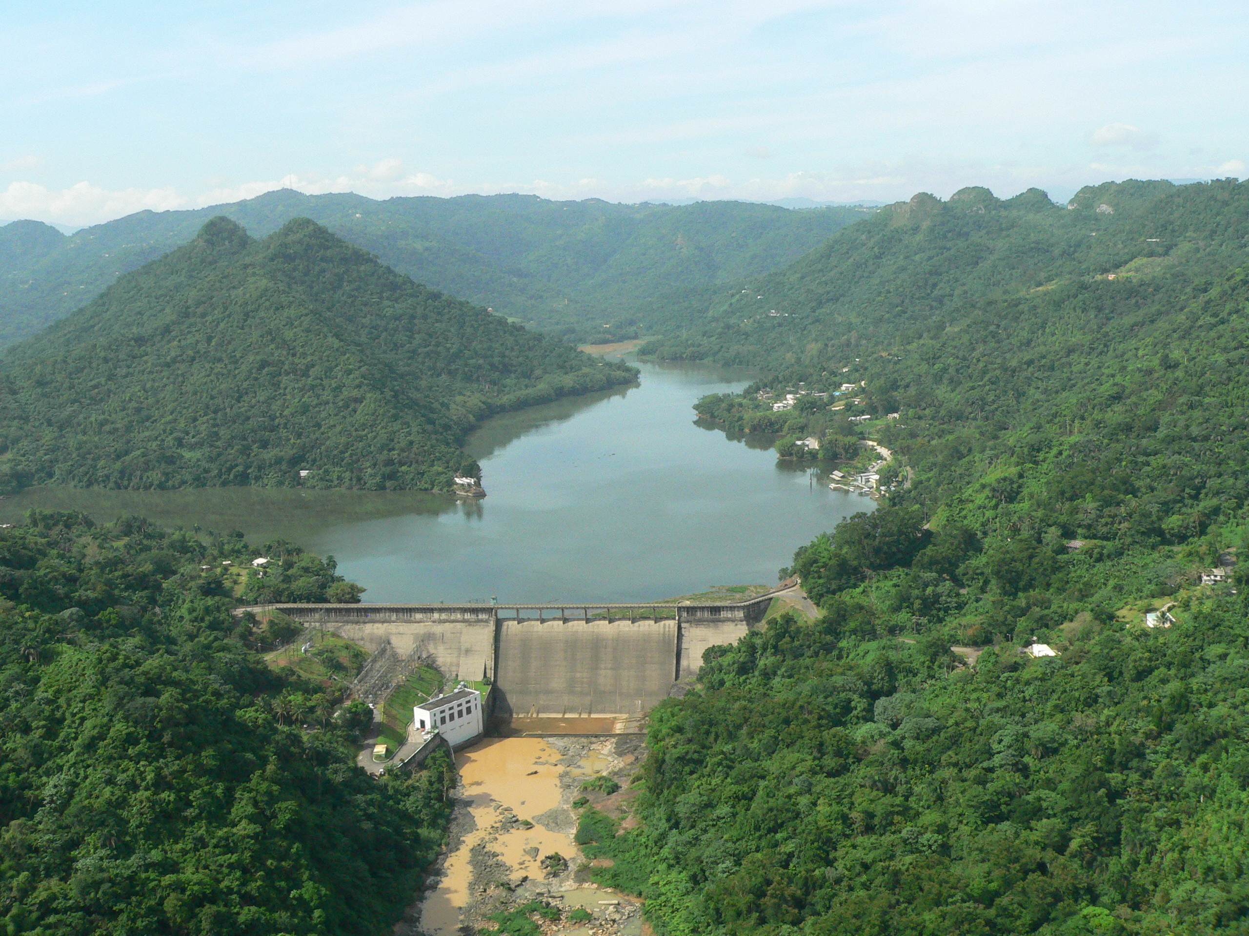 Lago Dos Bocas with dam in Puerto Rico